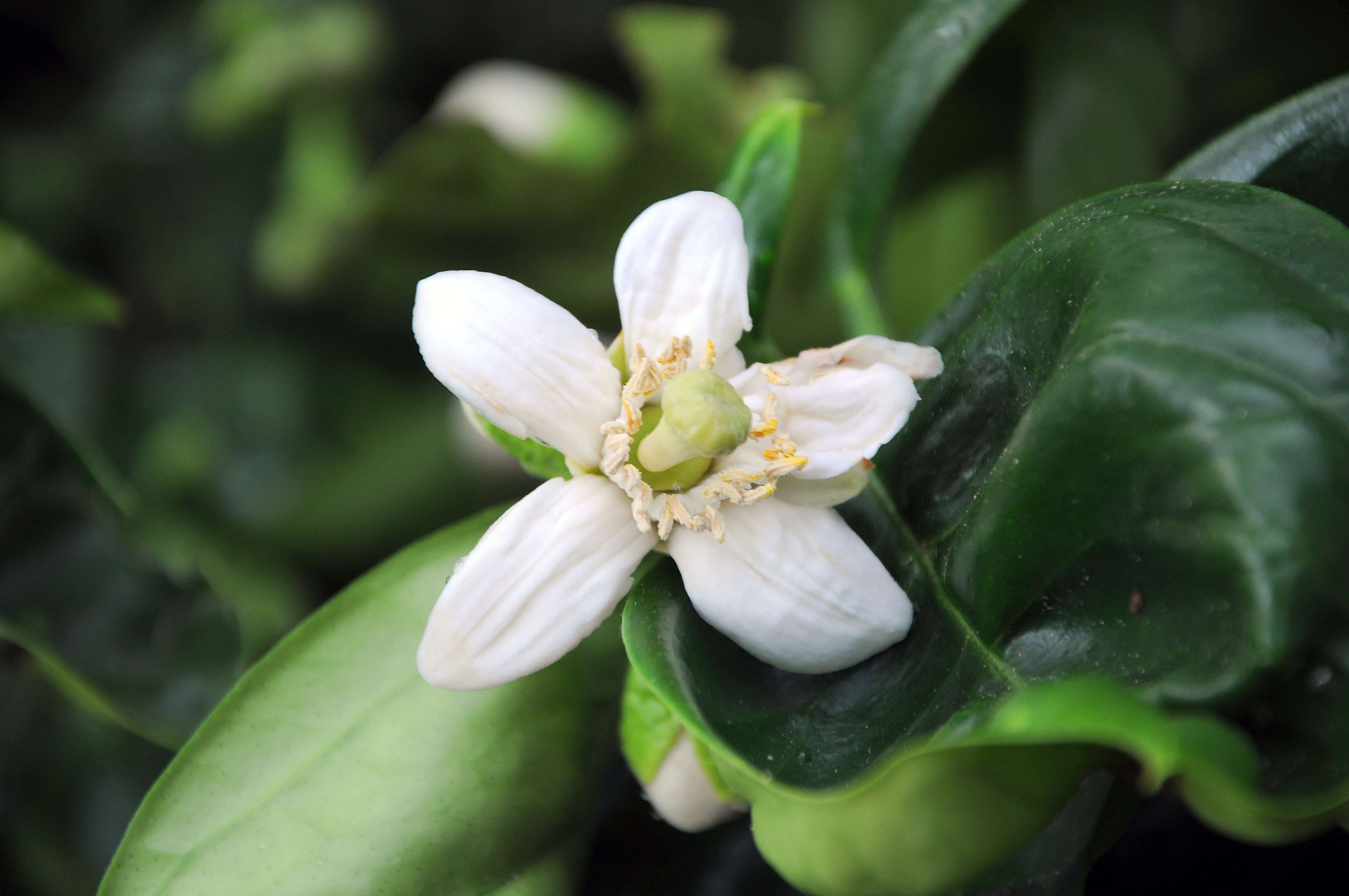 Pomelo